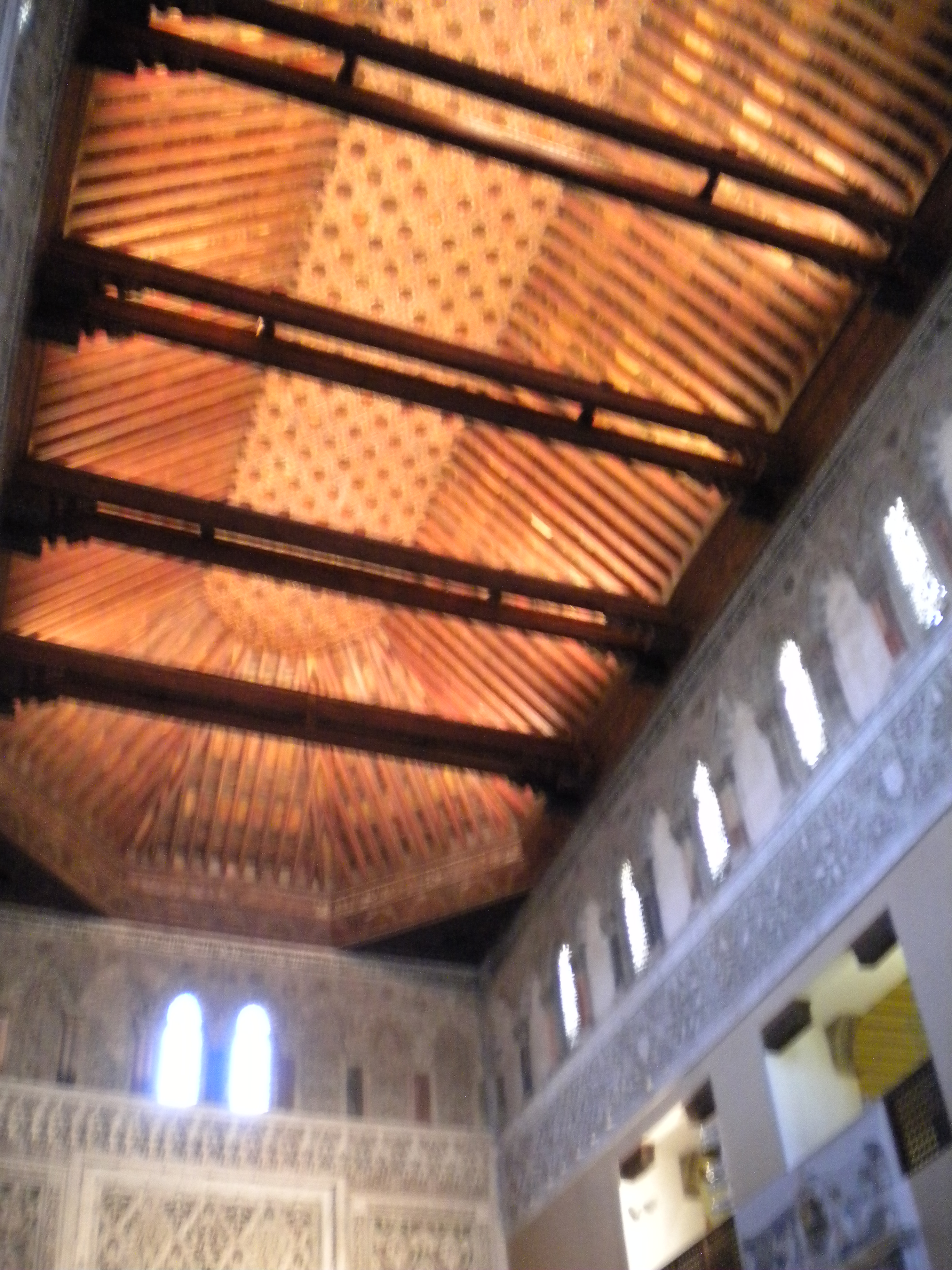 The Sephardi Museum in Toledo...built between 1336 and 1357